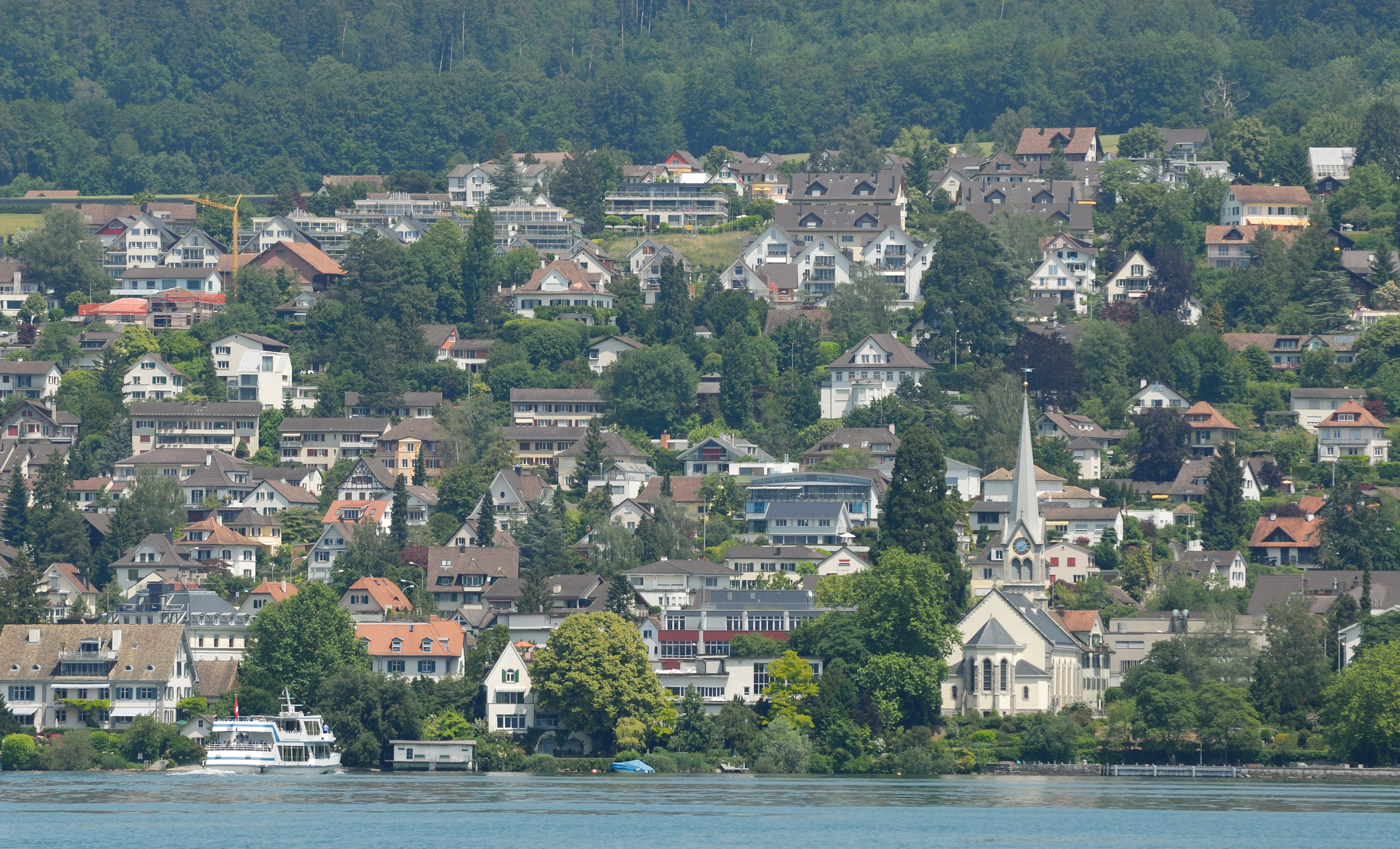 View of Erlenbach from Lake Zürich.